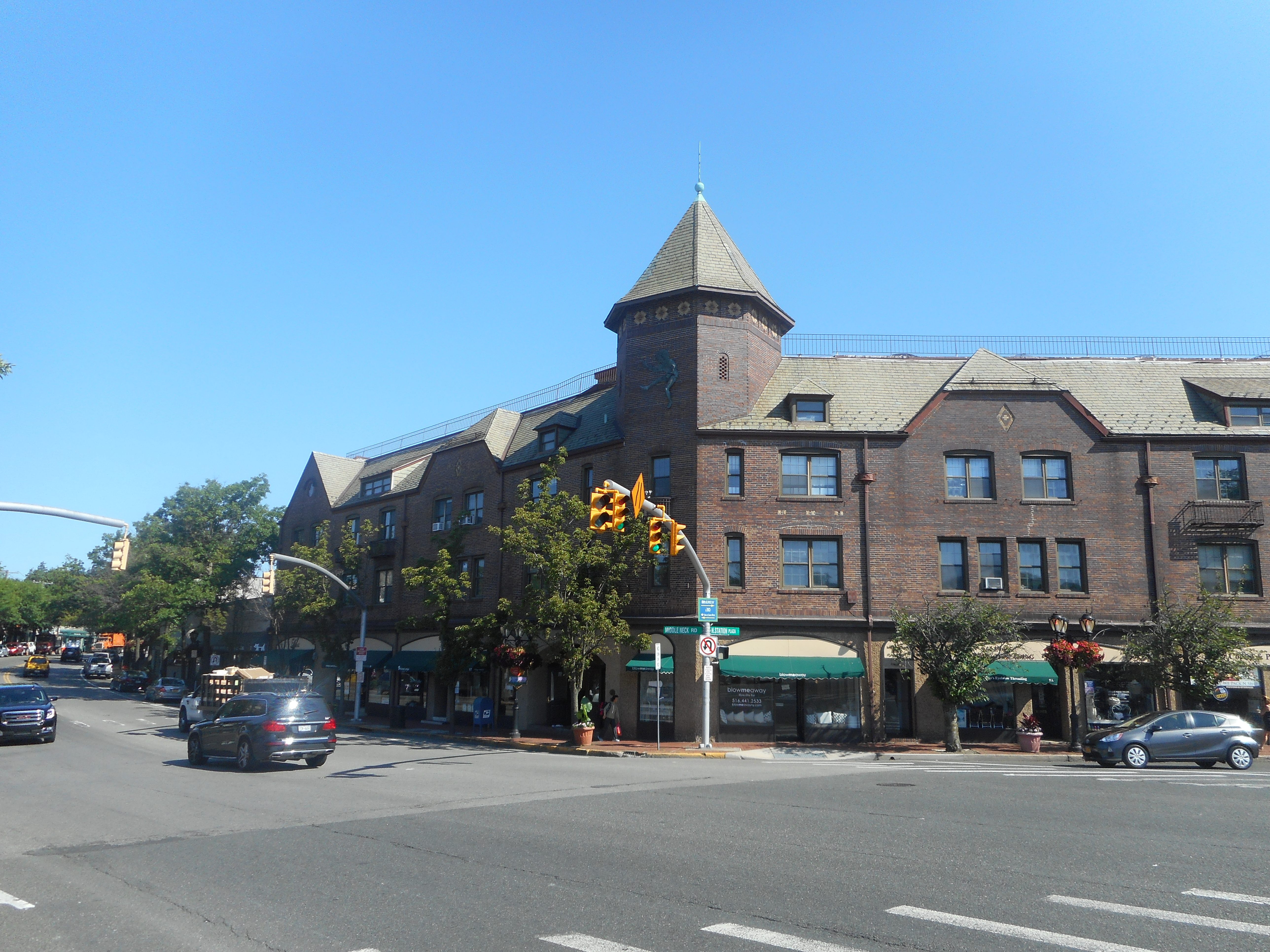 Second shot of the Grace and Thomaston Buildings on the northeast corner of Middle Neck Road and North Station Plaza in Great Neck Plaza, New York. This was taken from across Middle Neck Road in front of a Bank of America branch on the southwest corner of Middle Neck Road and Cutter Mill Road, and was an attempt to capture the complex at a slightly different angle.